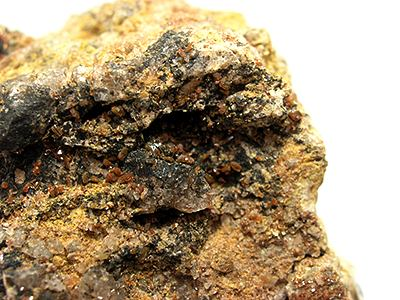 Bismite, Pucherite Locality: Pucher Shaft, Wolfgang Maaßen Mine field, Schneeberg District, Erzgebirge, Saxony, Germany (Locality at ) Size: large cabinet, 4.2 x 3.5 x 1.6 cm Pucherite on Bismite A VERY RICH SPECIMEN for the species, which comes at its best from this old, long-defunct type locality. This piece features dozens of bright crystals EYE-VISIBLE and striking red against matrix, to almost 1 mm in size. It is esoteric, I admit, but a very significant little specimen notwithstanding.